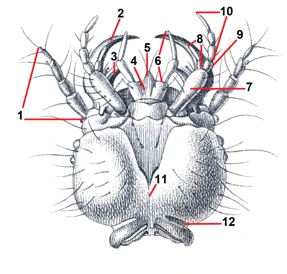 Nebria brevicolis larva head anatomy (ventral view); 1: antenna, 2: mandible, 3: retinaculum, 4: labium, 5: ligula, 6: labial palp, 7: stipes of maxilla, 8: galea, 9: palpifer, 10: maxillary palp, 11: gular suture, 12: cervical groove.